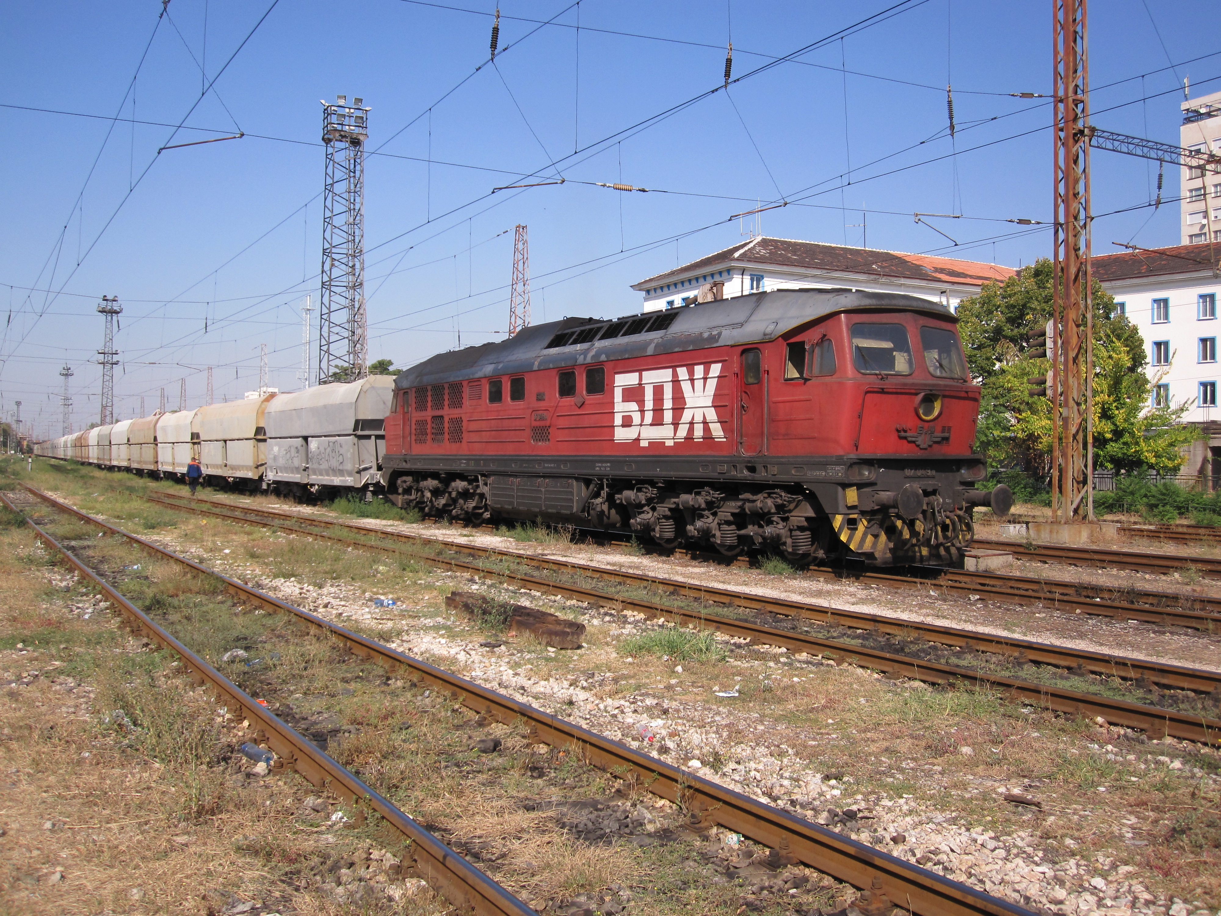 Dimitrovgrad is an important centre on the mainline from Plovdiv to Svilengrad and onwards to Turkey. With electrification complete on the first stage from Plovdiv, often many change locos here. Seen heading eastwards having re-engined 07049 is seen in charge of a freight on 28 September 2012.